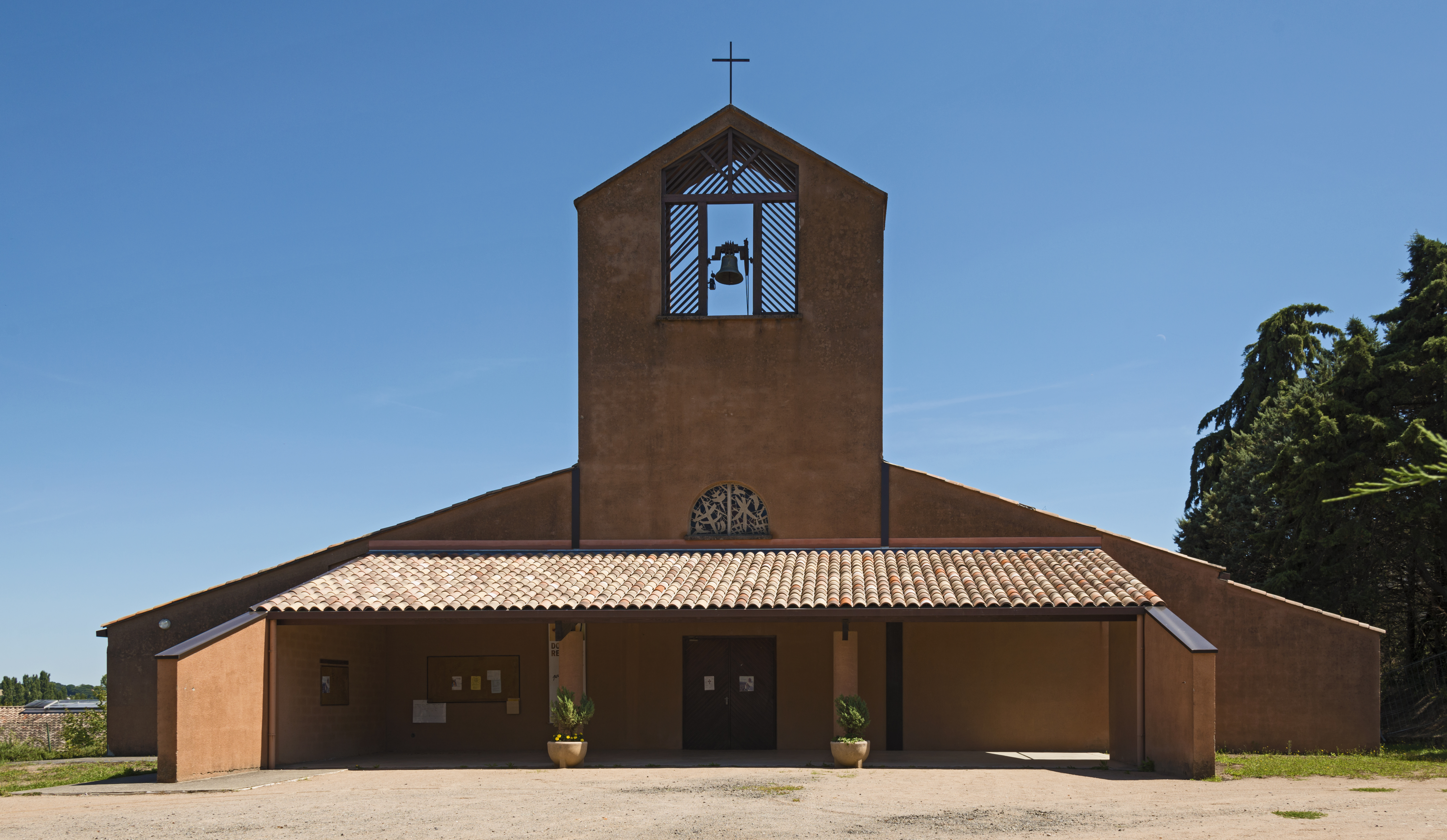 Montrabé, France. Facade of Saint-Martial Church.